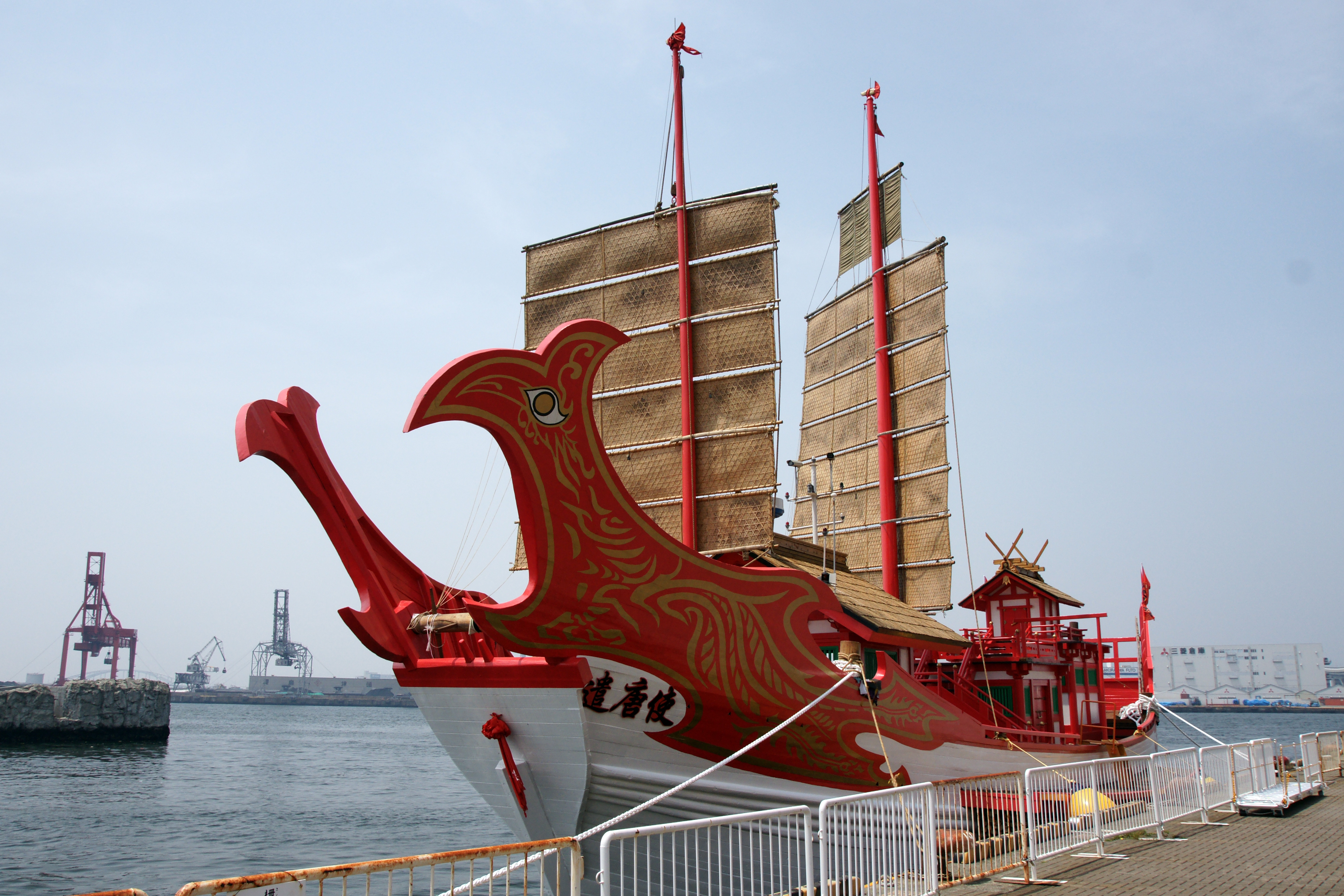 Kentoshi-sen at Osaka Port in Osaka, Osaka prefecture, Japan